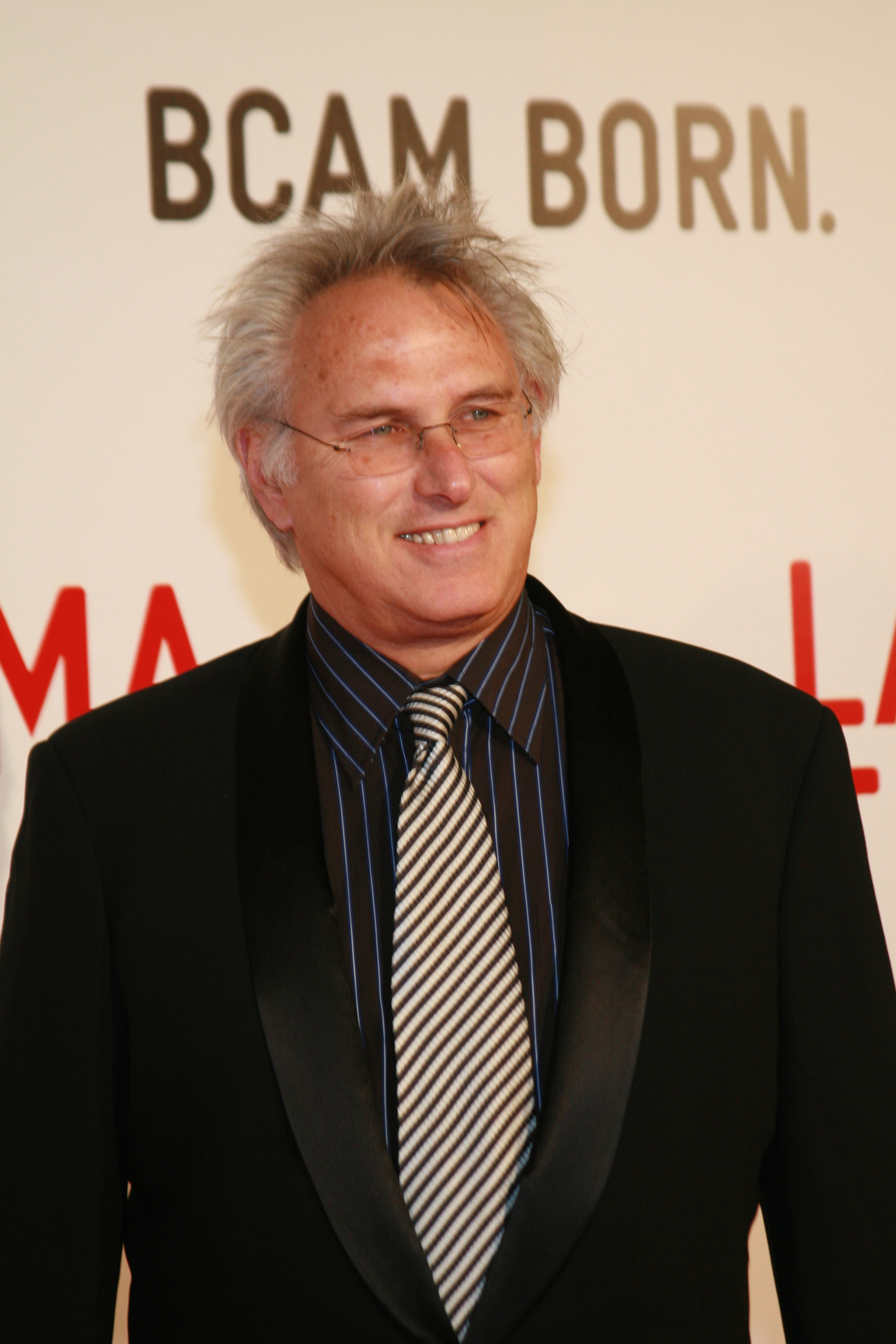 Eric Fischl arrives at LACMA’s Gala Opening of the Broad Contemporary Art Museum on February 9, 2008 in Los Angeles, CA.